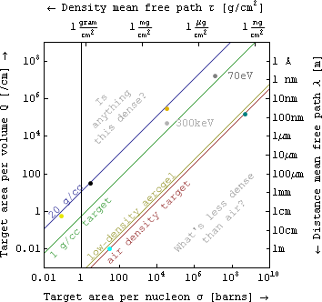 This figure plots equivalent quantities used in the theory of scattering from composite specimens, but with a variety of units, onto a single plot. The grey dots are for inelastic scattering of a 300 keV electron passing through a specimen of solid Silicon, as well as for an electron near its most strongly interacting energy of around 70 eV in a metal. The gold dot shows how a 300 keV electron has a shorter distance mean free path but about the same area cross-section. The mean free path between collisions of nitrogen molecules in air at STP is shown by the darker blue-green dot, while the cyan dot shows approximately where the mean free path for light scattering by fog might plot. The black and yellow dots denote nuclear cross-sections, e.g. in the latter case for Rutherford backscattering of a He nucleus from a gold foil.